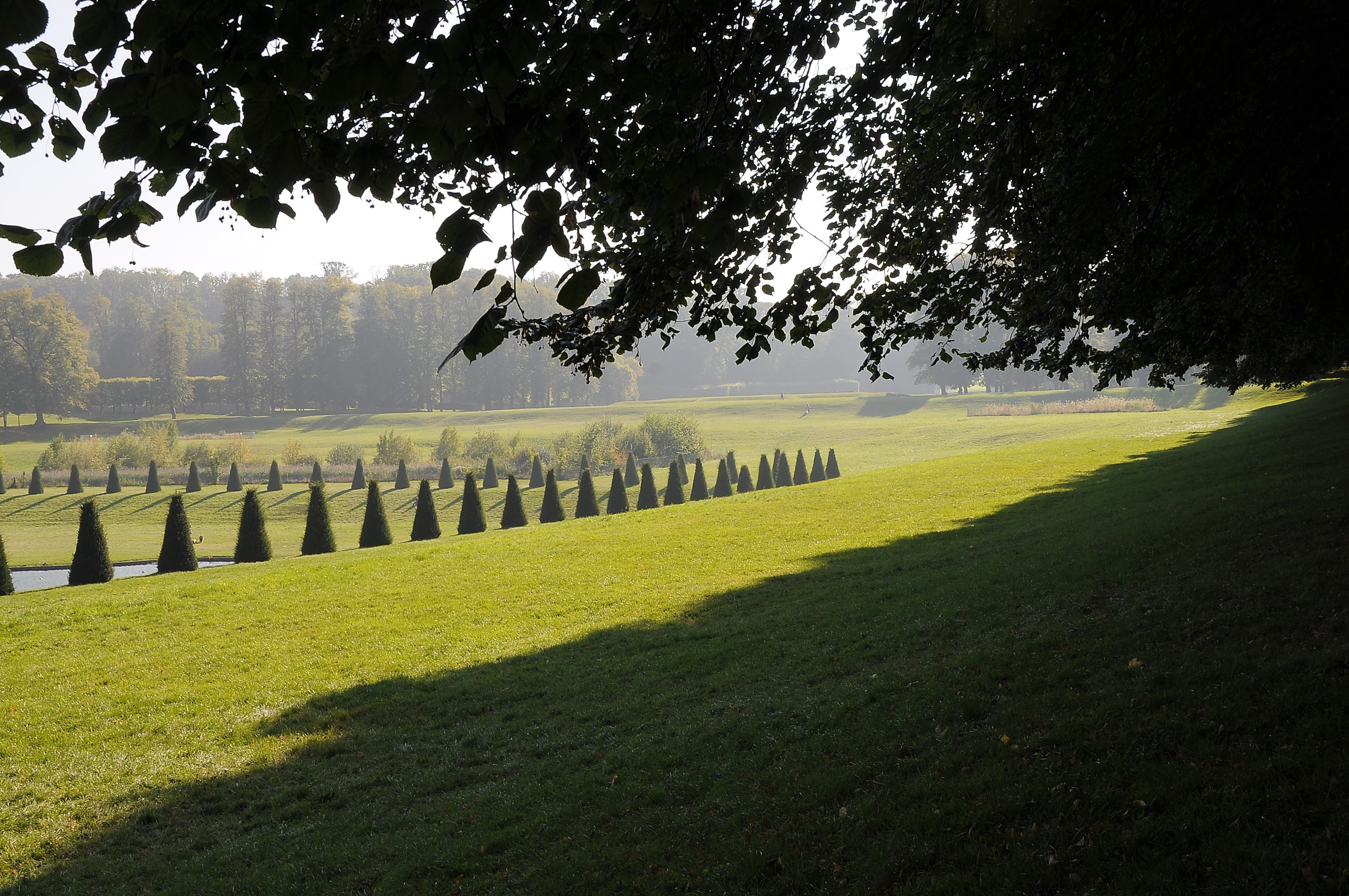 Domaine national de Marly, a former park of Château de Marly in Marly-le-Roi, Yvelines, France.